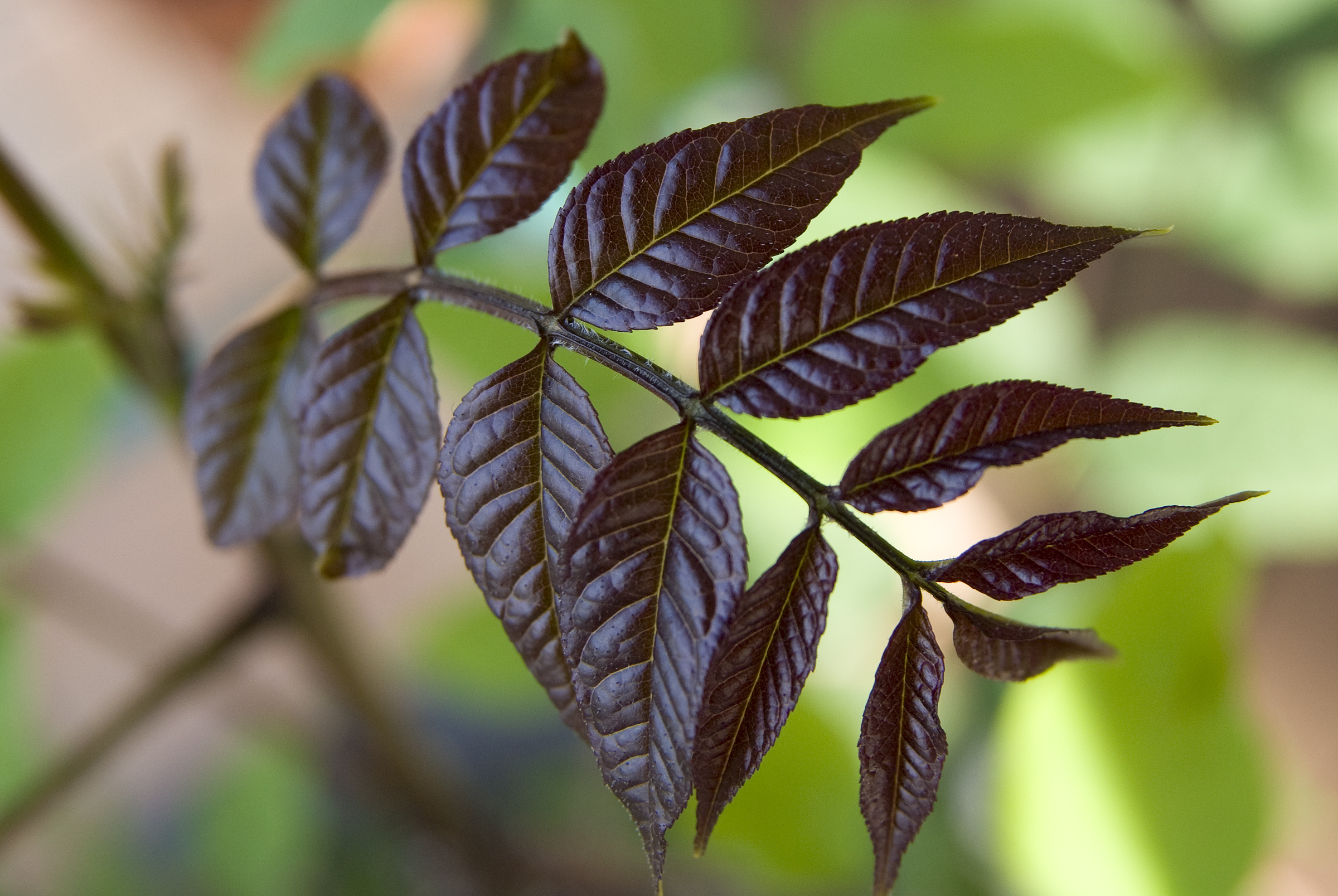 Young Leaf of a young ash (Fraxinus Ex.)